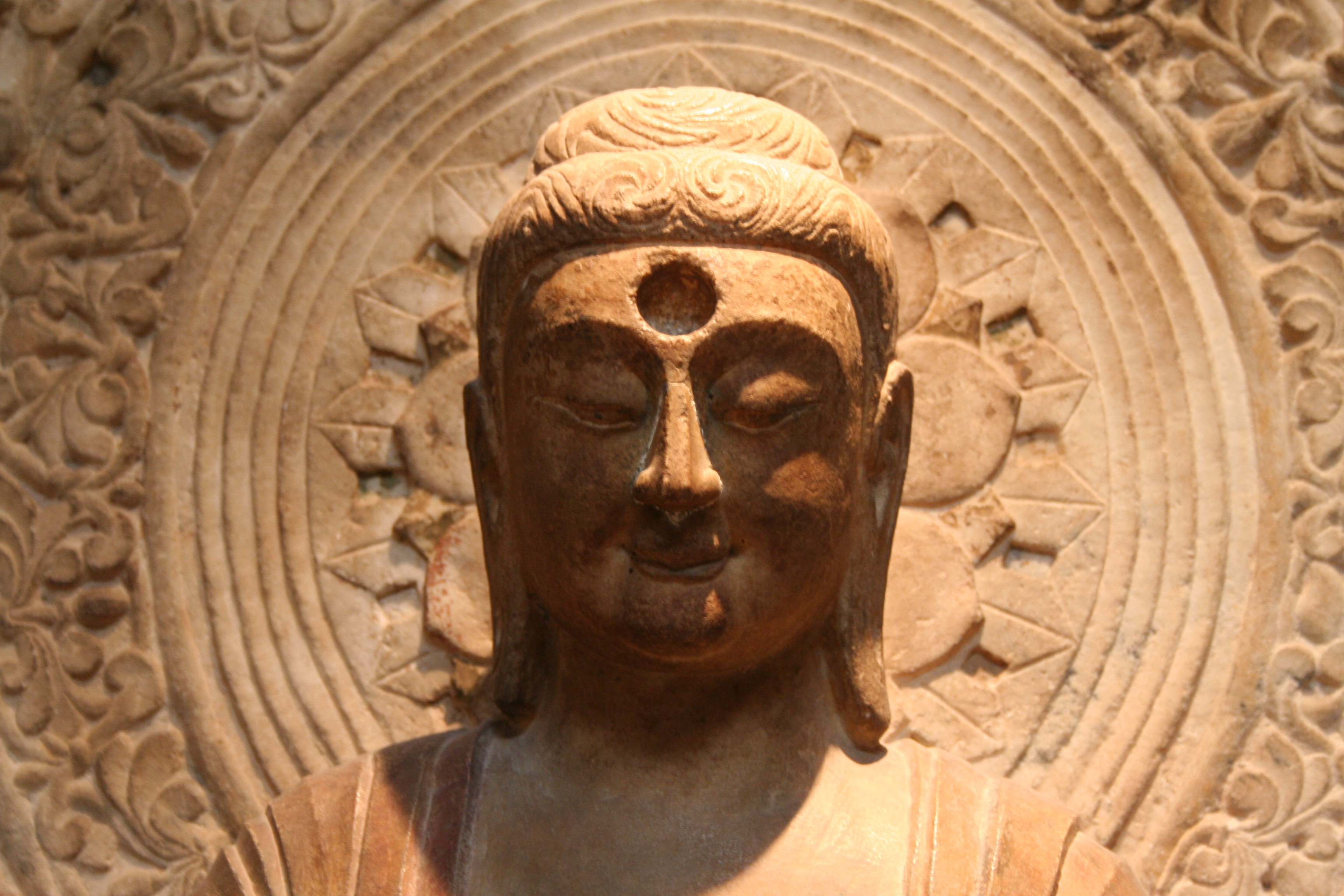 Amitabha Buddha (Amituofo). Marble. Hebei. Nothern Qi Style (550 – 578). Liao Dynasty (907 – 1125). Cernuschi Museum, Paris, France.